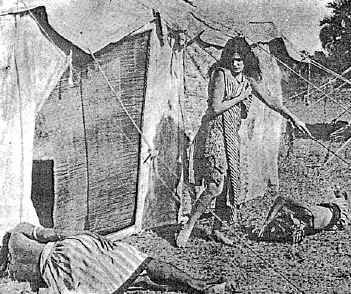 Description: Low-resolution reproduction of publicity photograph for the movie Alam Ara (1931), featuring star Zubeida Corporate author/original rights holder: Imperial Movietone Source: The Hindu